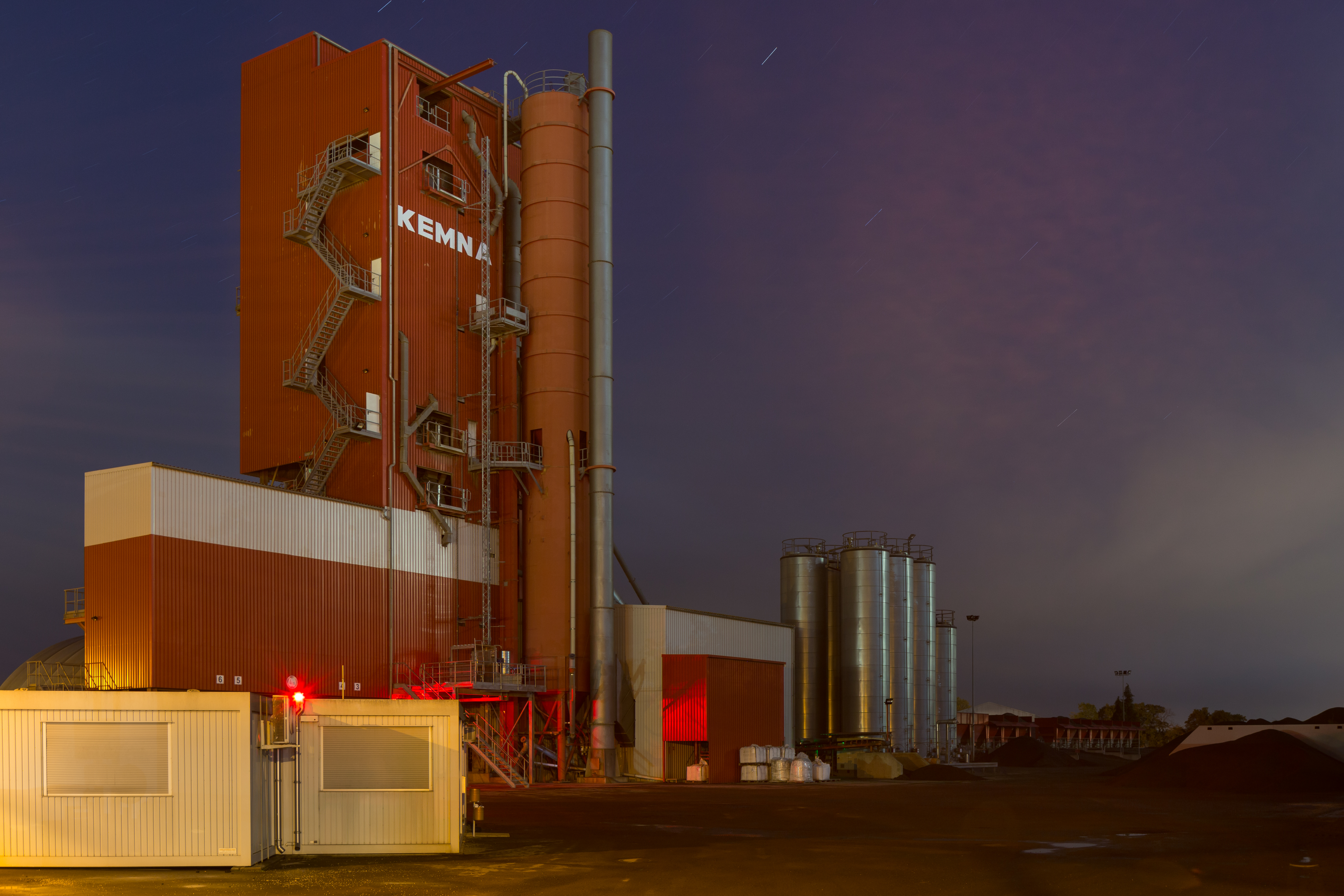 Company grounds of Kema construction company located at Lohweg in Misburg-Sued quarter of Hannover, Germany.